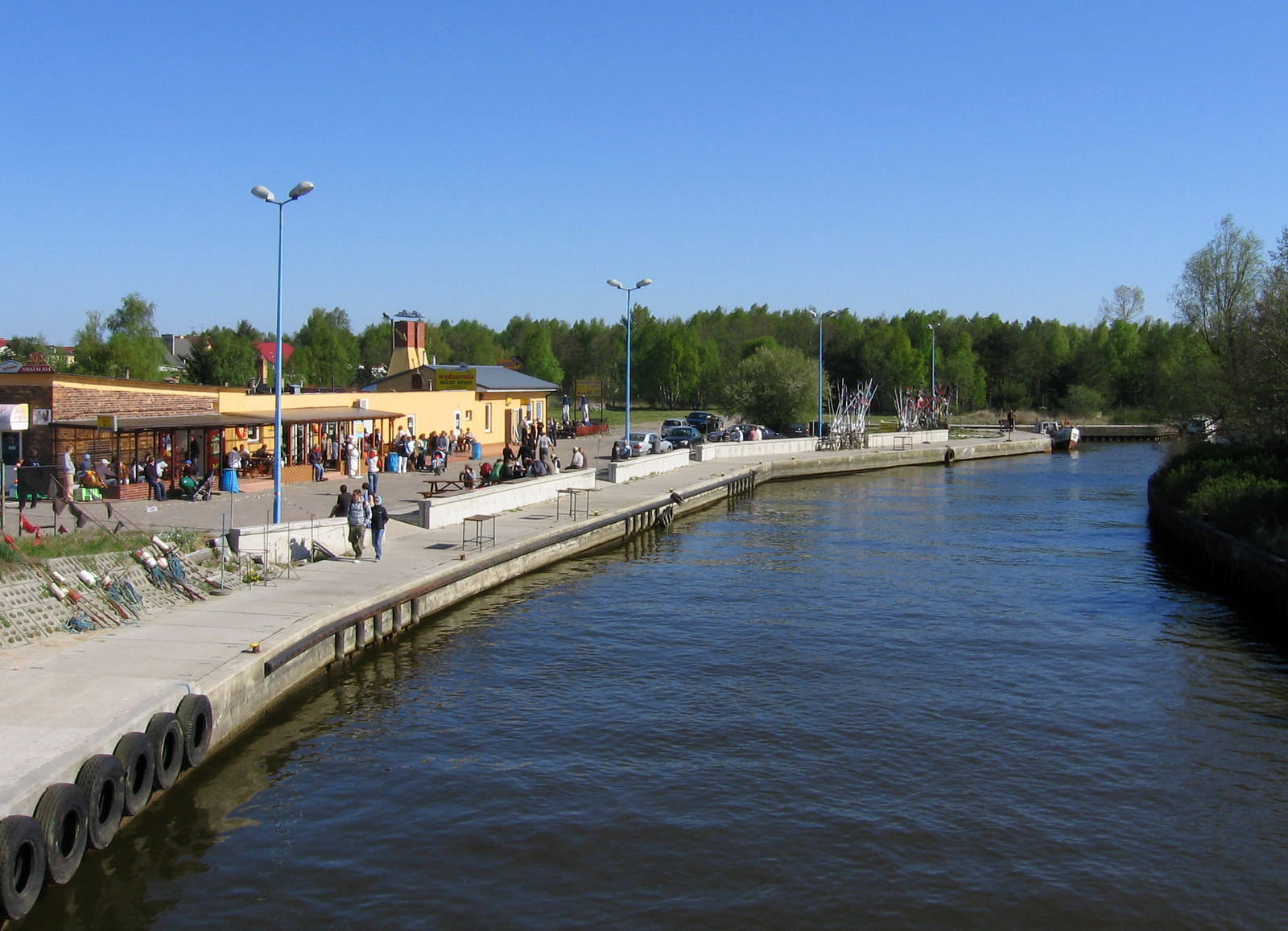 Old fishing wharf in Port of Dźwirzyno, Poland